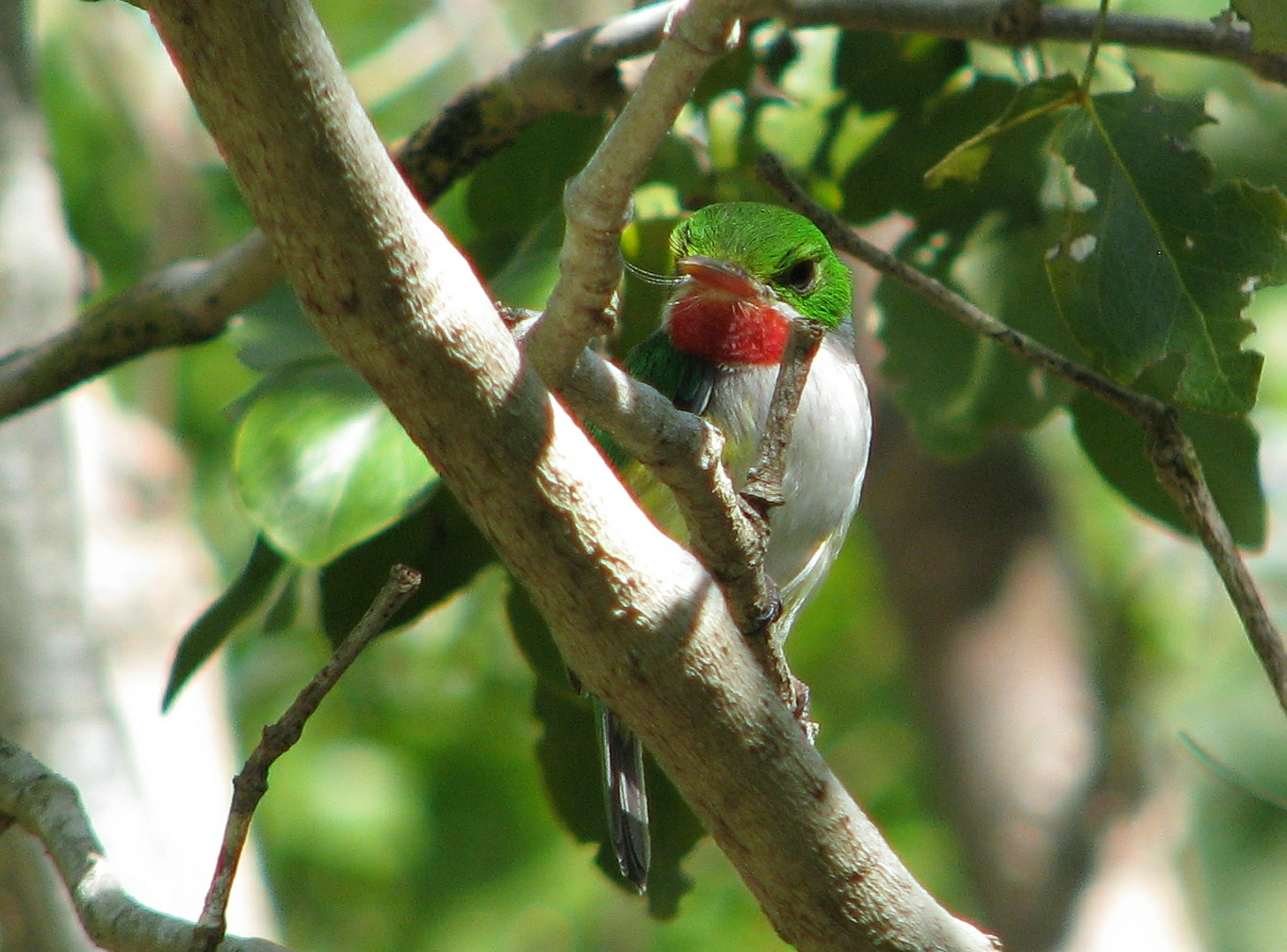 Puerto Rican Tody Todus mexicanus, taken in Bosque Estatal de Guanica, Puerto Rico